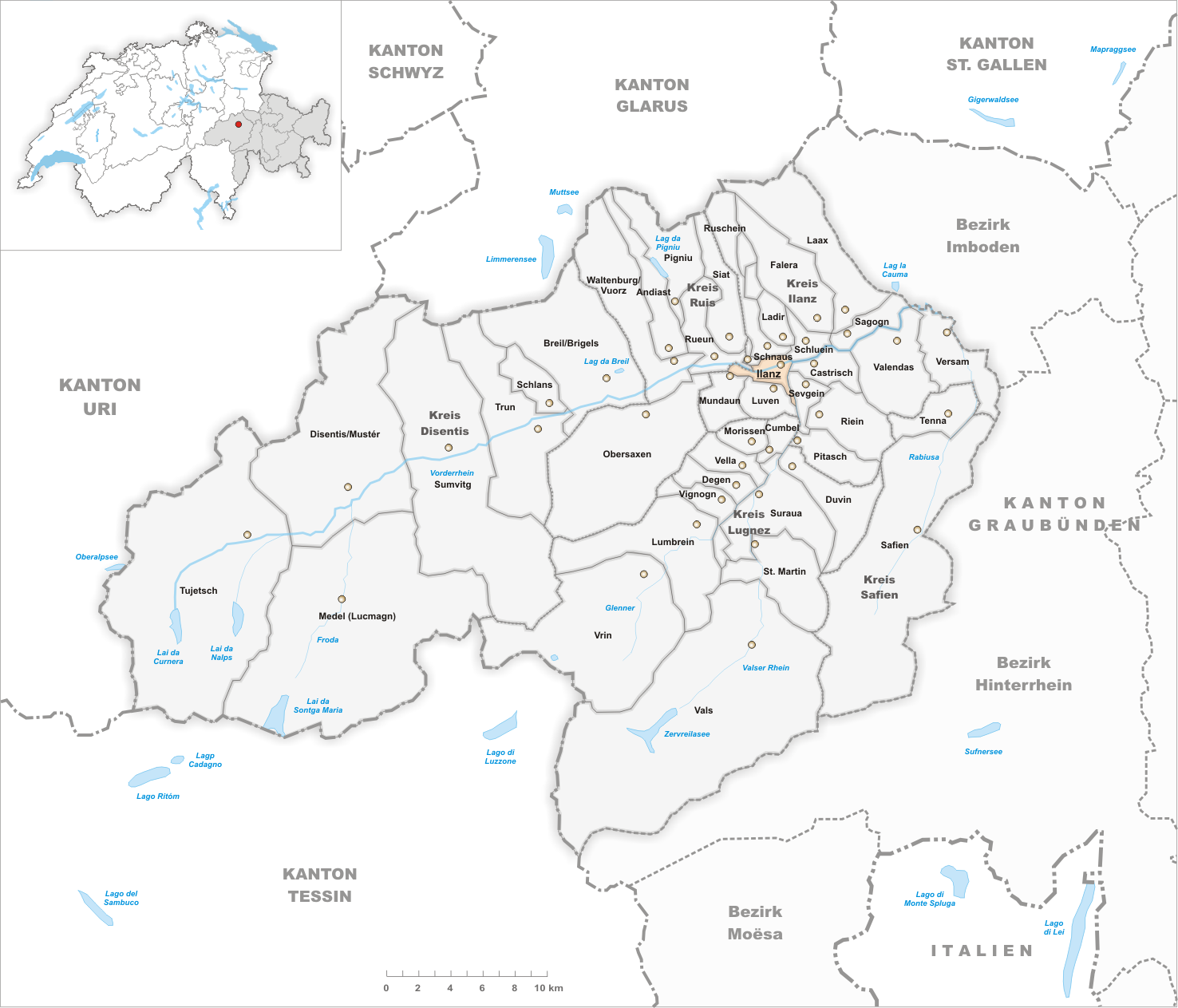 Municipality Ilanz